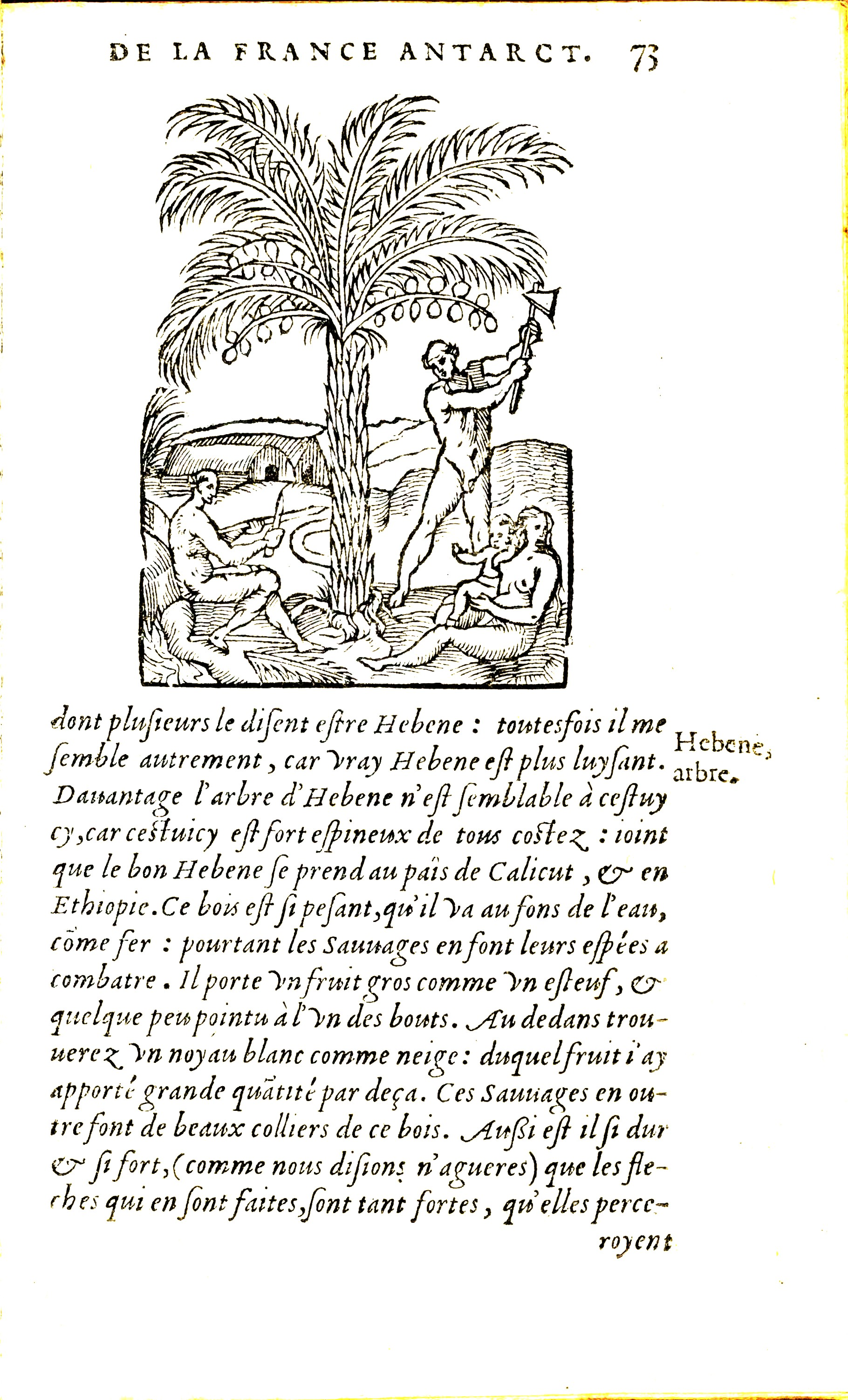 Les singularitez de la France Antarctique, autrement nommée Amerique, & de plusieurs Terres & Isles decouuvertes de notsre temps . Antwerp: Christopher Plantin, 1558. 8° (215 x 150mm). Printer's device on title, 41 woodcuts in text. (Some occasional soiling, some intermittent small stains.) 19th-century red morocco. Provenance : Baron Horace de Landau (1824-1903, bookplate). AN ESSENTIAL SOURCE ON THE NATIVE PEOPLES OF BRAZIL. ONE OF THE EARLIEST AMERICAN ICONOGRAPHIES. Second edition, after the first published in Paris by Maurice de la Porte the previous year. In 1555-1556, André Thevet, a Franciscan friar, accompanied Villegagnon to Brazil to found a French colony near present-day Rio de Janeiro. The expedition set sail from Le Havre in May 1555, and the narrative includes descriptions of Gibraltar, Africa, the Canaries, Madagascar, etc. They arrived in America at Cap de Frie on 10 November. There are interesting accounts of native customs and beliefs as well as detailed descriptions of animals and plants. The description of tobacco, and the manner in which the Indians used it, is one of the earliest known, and there is an illustration of an Indian smoking a cigar. Thevet is credited with the introduction of tobacco into France, although this is a matter of debate, since this is more usually attributed to Jean Nicot, whose name is perpetuated in the word nicotine. Descriptions of other parts of the continent follow: Cuba, Peru (the mines of Potosi), and Mexico (which is compared to Venice). There is also a chapter on Florida as well as one of the earliest accounts of Canada and Newfoundland, which Church believes came from Cartier, while others suggest that Thevet visited Canada on his way back to France. The woodcuts, among the earliest depictions of America, influenced illustrations of later ethnographies including those by de Bry, Lery, and Benzoni.